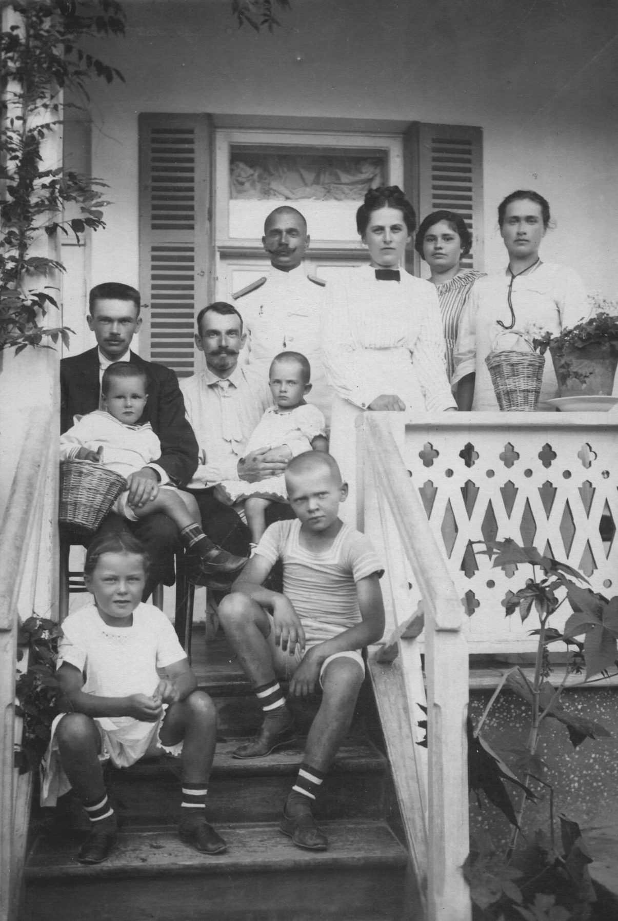 Alexander and Vadym Bogomolets with their families.